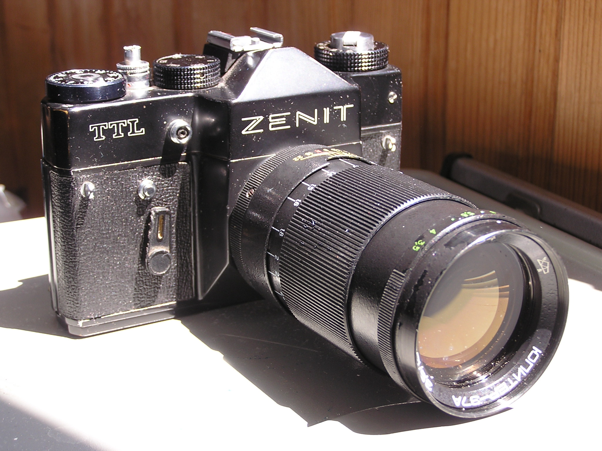 Zenit "TTL" SLR camera with "Jupiter" ("Юпитер") lens